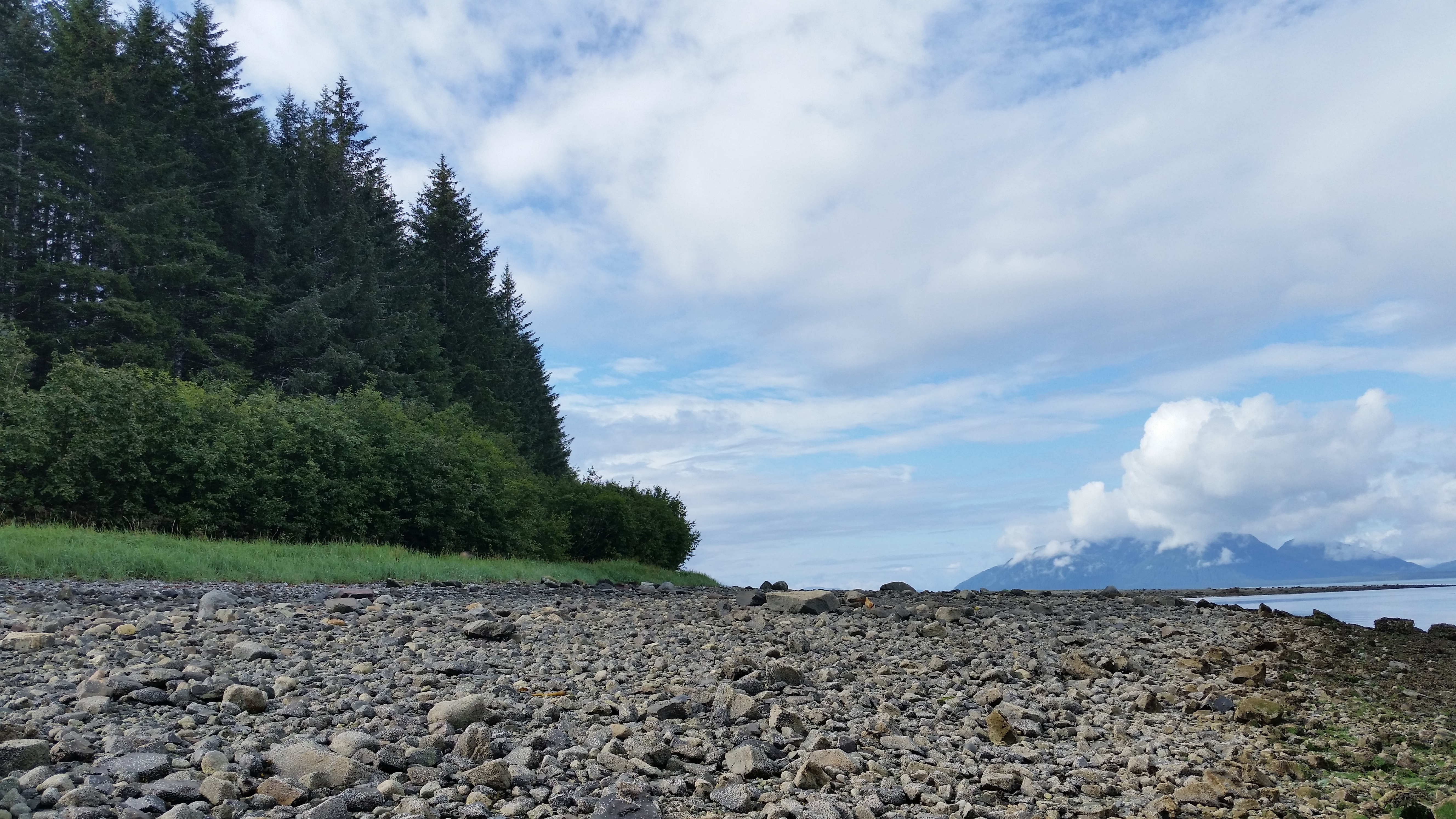 Glacier Bay National Park, glacial gravel, Sitka Alder or Alnus crispa, Sitka Spruce or Picea sitchensis